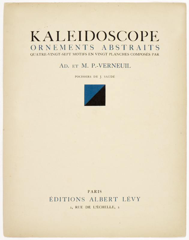 Title page of the Portfolio Kaleidoscope published in 1925 by Adelaide Verneuil de Marval and her husband, the art deco artist Maurice Pillard Verneuil.